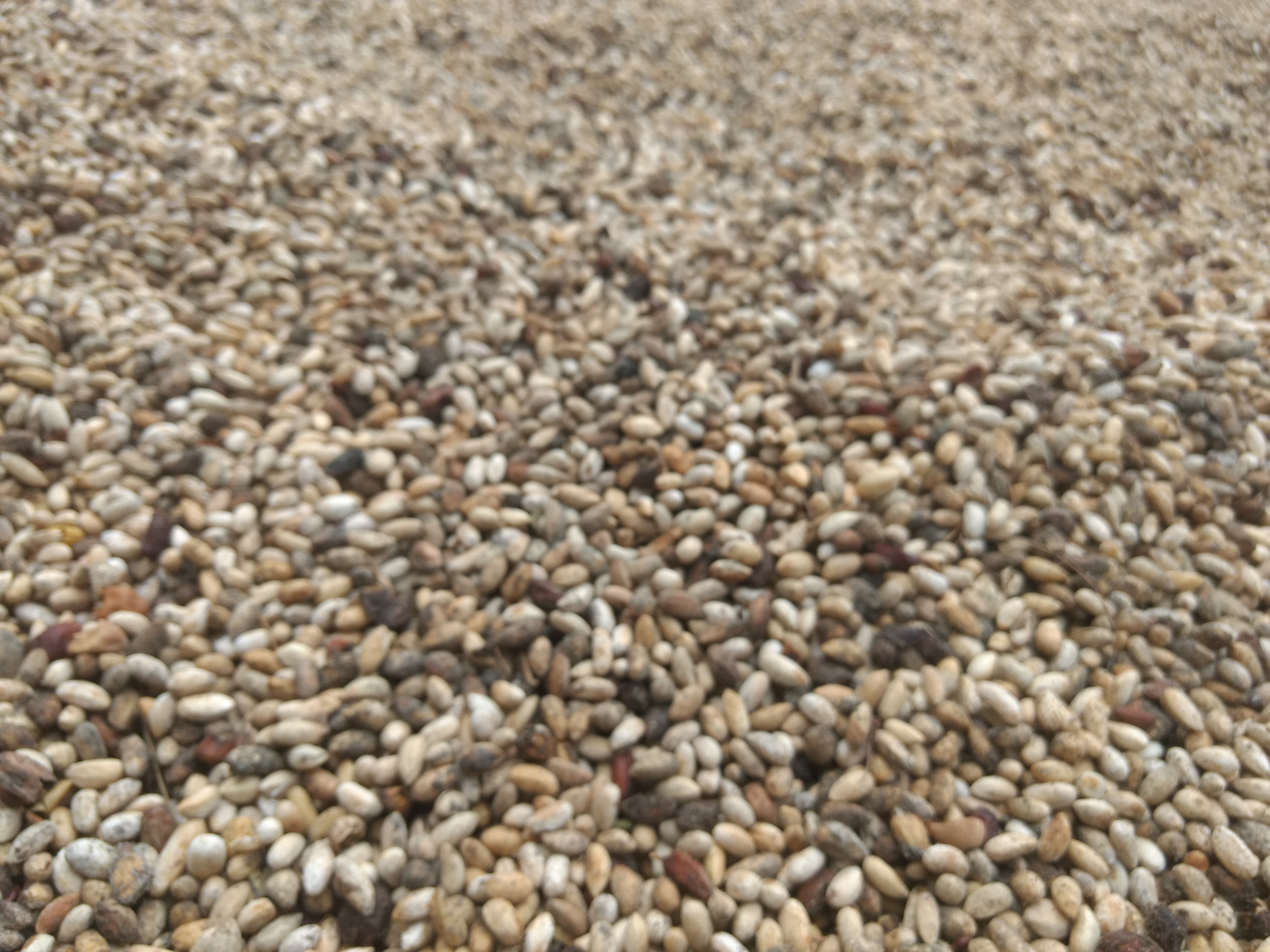 Ineem seed drying process